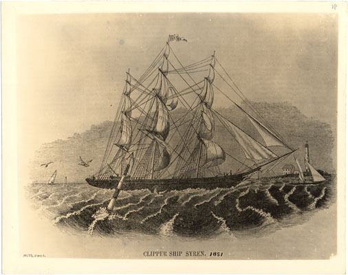 Engraving of sailing ship "Syren. 1 photographic print: b&w. Written on back: "Syren. Builder: Taylor; Medford; 1851. Dimensions: 179 x 35.1 x 22. Tonnage: 1064 Tons. Type: Wood Clipper Ship. Later Named: Margarida (of Buenos Ayres)."